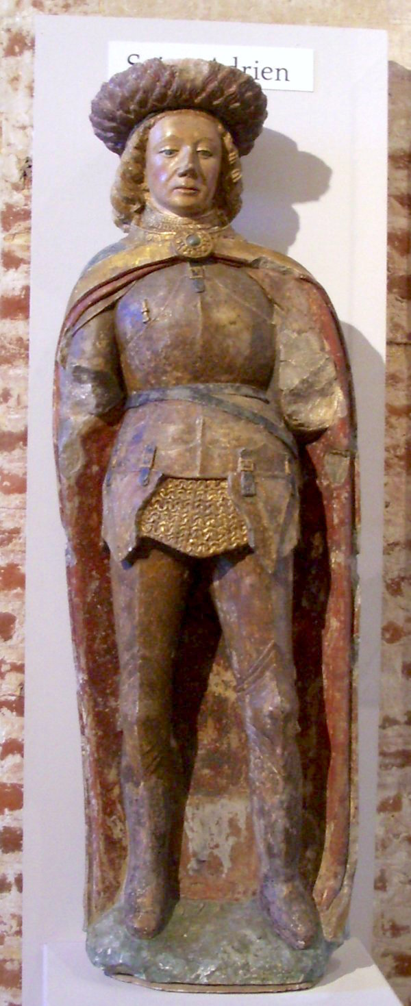 statue de saint Adrien (Adrian of Nicomedia)